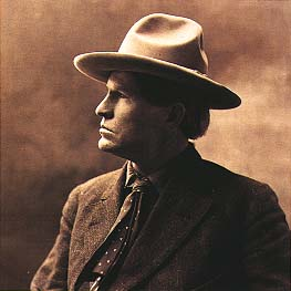 Detail of Studio Portrait of Charles M. Russell.